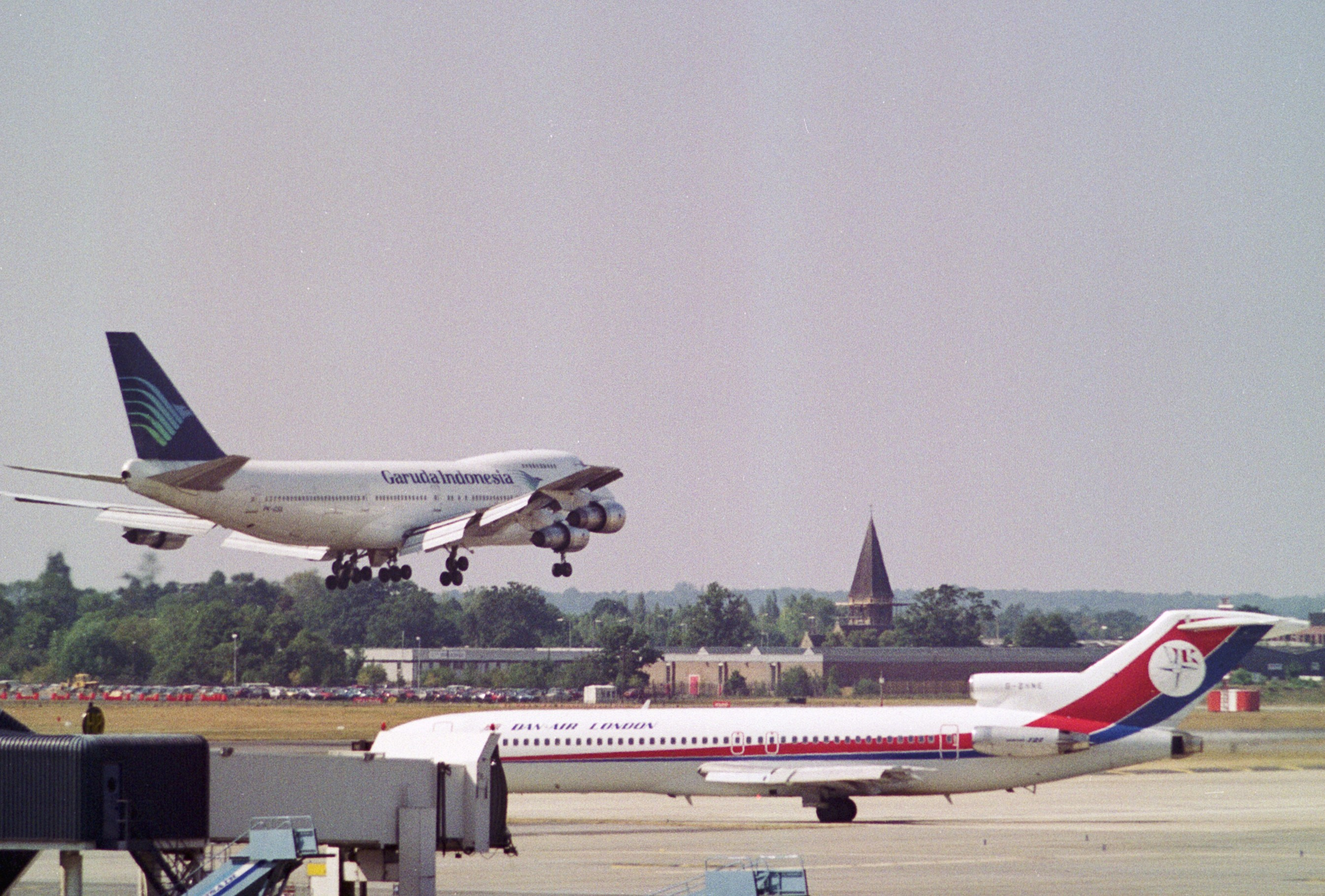 Boeing 747-2U3B PK-GSA (cn 22246/452) Garuda Indonesia (Later served with Phuket Air, Thailand, as HS-TAO. Last noted in 2005). Boeing 727-2J4/Adv G-BHNE (cn 21676/1417) Dan-Air London (Later served with Sun Country Airlines as N285SC. Scrapped at Miami - Opa Locka in 2005). London - Gatwick (LGW / EGKK) UK - England, August 1990.